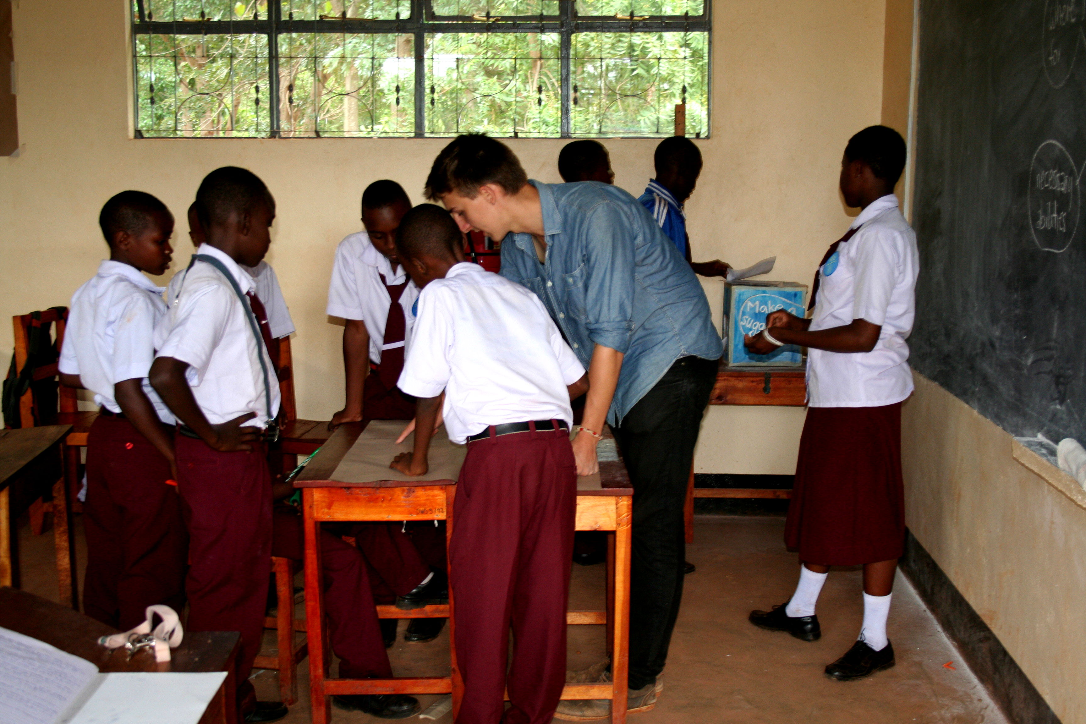 Young volunteer at One World Secondary School Kilimanjaro in Tanzania